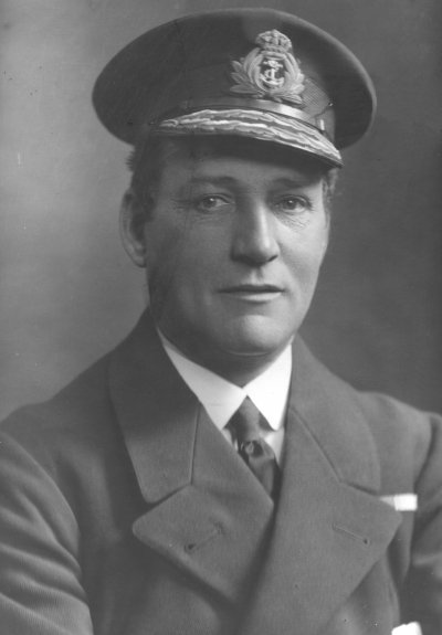 Photograph of Sir Godfrey Paine.